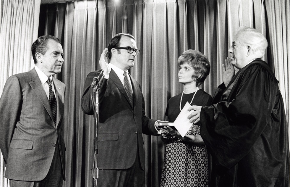 William Ruckelshaus swearing in as the first Administrator of the U.S. Environmental Protection Agency (EPA). Seen from left to right: President Richard M. Nixon, William Ruckelshaus, Jill Ruckelshaus (wife), Chief Justice Warren Burger.